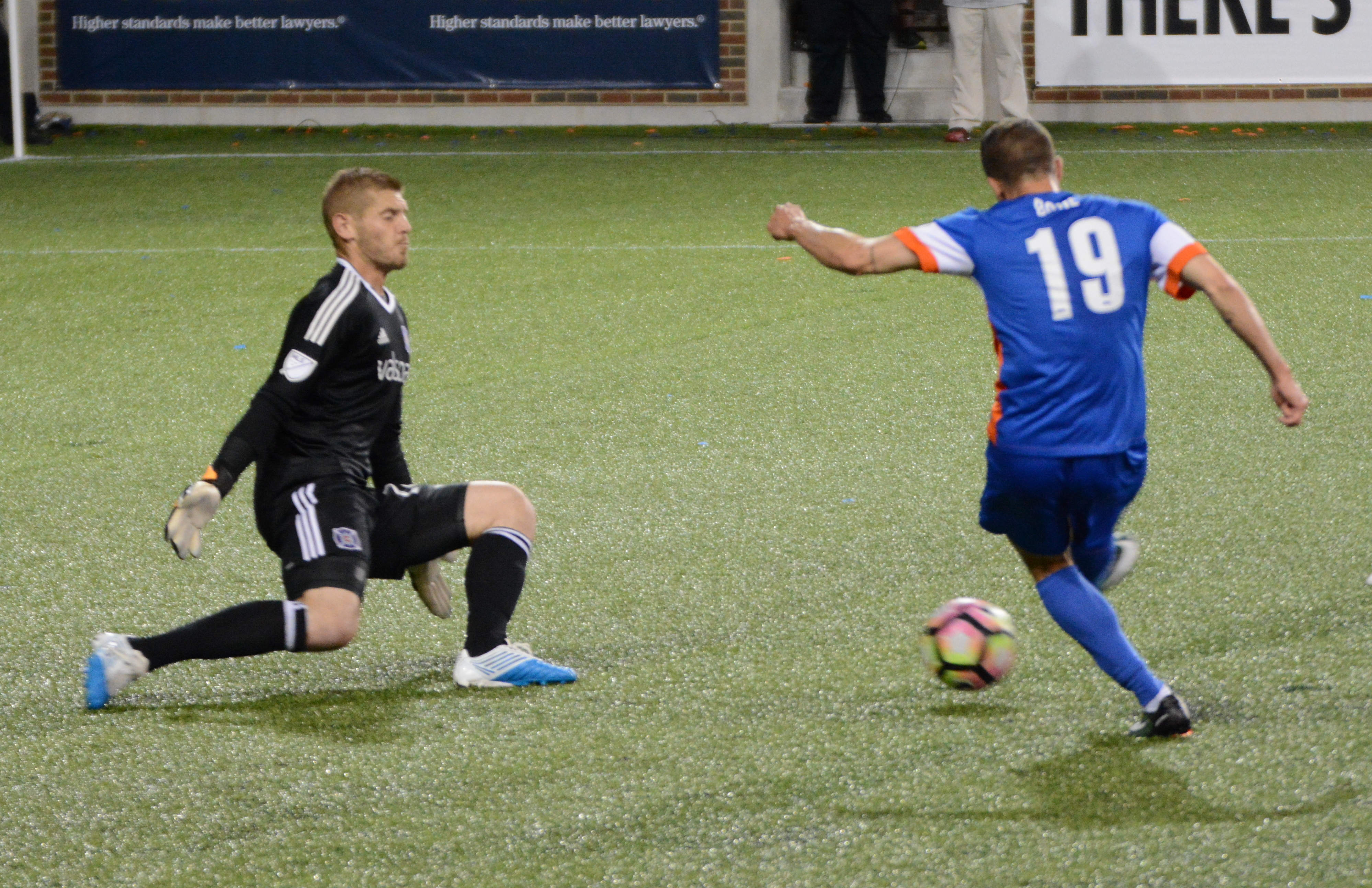 also pictured: Jonathan Campbell Taken at a U.S. Open Cup match between FC Cincinnati and Chicago Fire SC at Nippert Stadium in Cincinnati, Ohio on June 28, 2017.